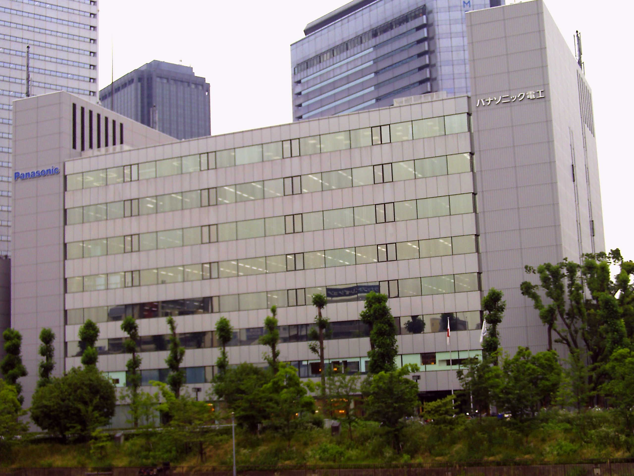 Panasonic-Denko